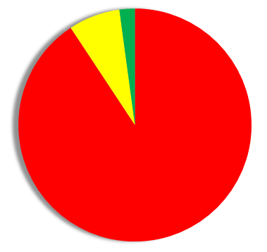 Expressed as a pie chart in the Niigata gubernatorial election in 2012, the number of votes for each candidate.